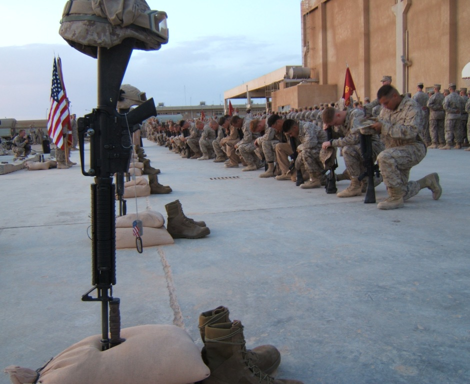 Marines mourning the loss of our fellow brothers.